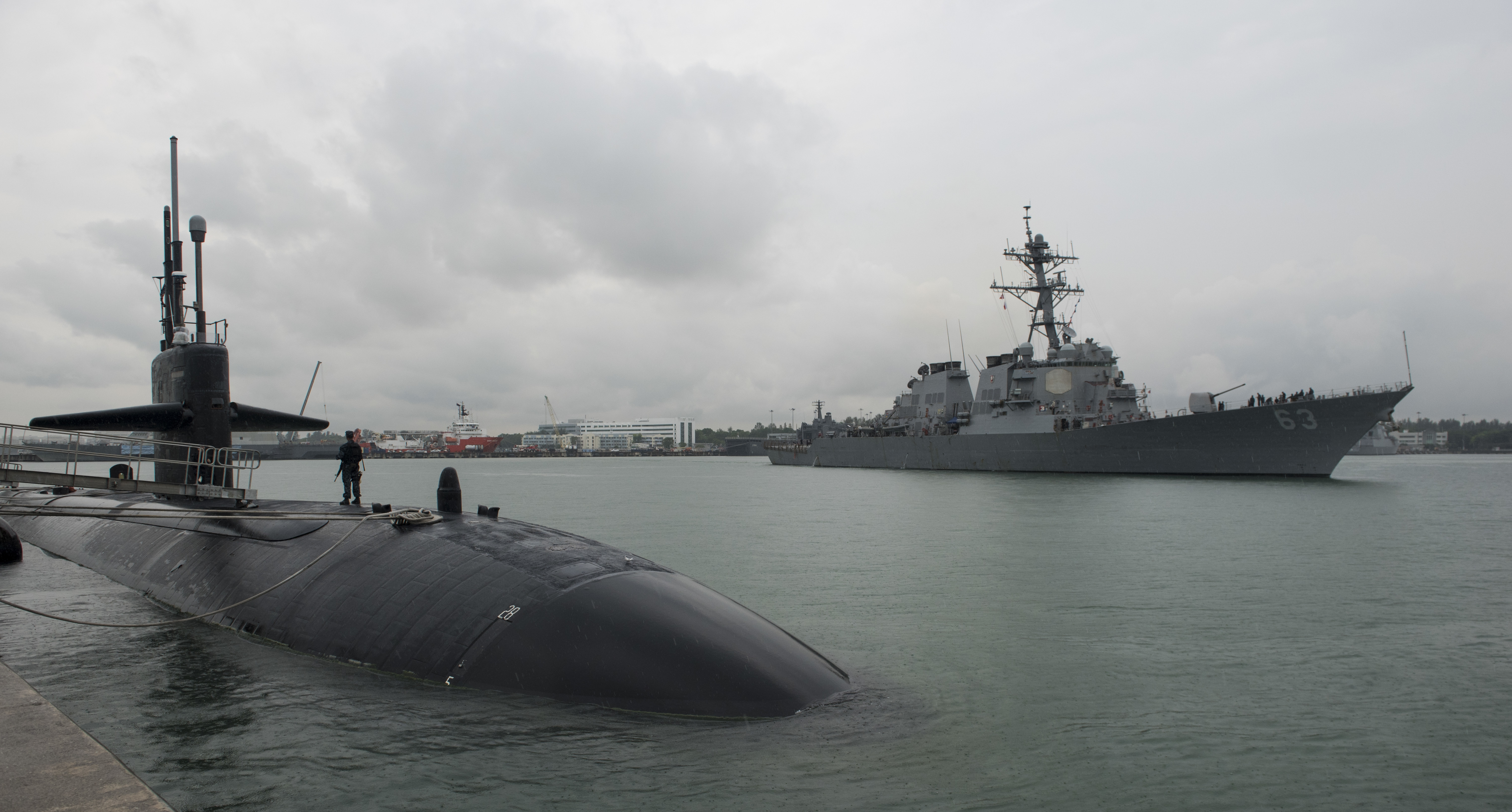 SINGAPORE (July 22, 2016) The Los Angeles-class attack submarine USS Buffalo (SSN 715) and the Arleigh Burke-class guided-missile destroyer USS Stethem (DDG 63) depart Changi Naval Base for the at-sea phase of Cooperation Afloat Readiness and Training (CARAT) Singapore 2016 July 21. CARAT is a series of annual maritime exercises between the U.S. Navy, U.S. Marine Corps and the armed forces of nine partner nations to include Bangladesh, Brunei, Cambodia, Indonesia, Malaysia, the Philippines, Singapore, Thailand, and Timor-Leste. (U.S. Navy photo by Mass Communication Specialist 2nd Class Joshua Fulton/Released)160722-N-OU129-135 Join the conversation: navylive.dodlive.mil